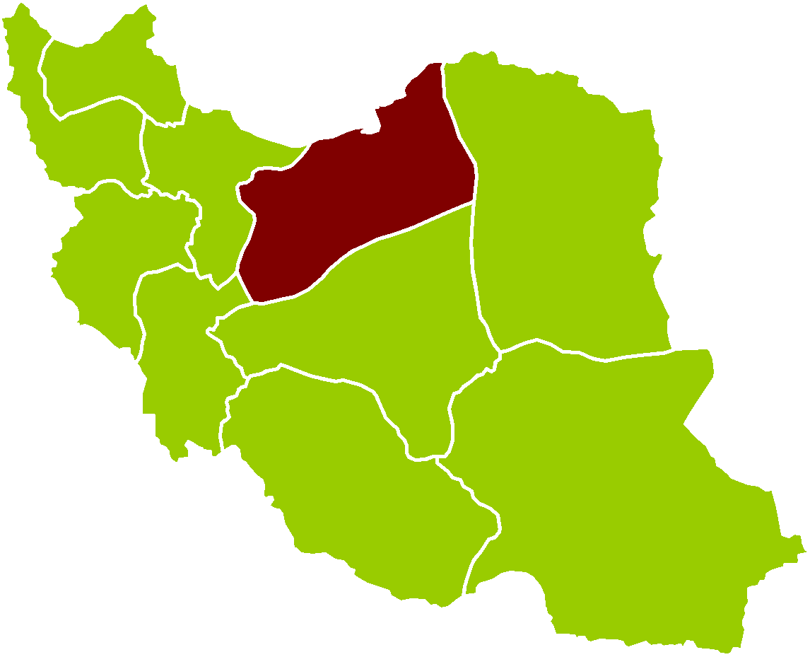 Second province of Iran